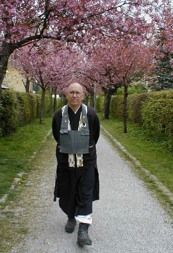 Claude AnShin Thomas Photograph by Gakuro